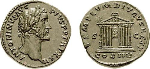 Sesterzio di Antonino Pio raffigurante, al rovescio, il Tempio di Augusto Antoninus Pius. Æ Sestertius. 159 AD. ANTONINVS AVG PIVS P P TR P XXII, laureate head right TEMPLVM DIV AVG REST S-C, COS IIII in ex, statues of Divus Augustus & Diva Julia Augusta (Livia) seated facing on bases & holding long scepters, all within octastyle temple. Cohen 805.